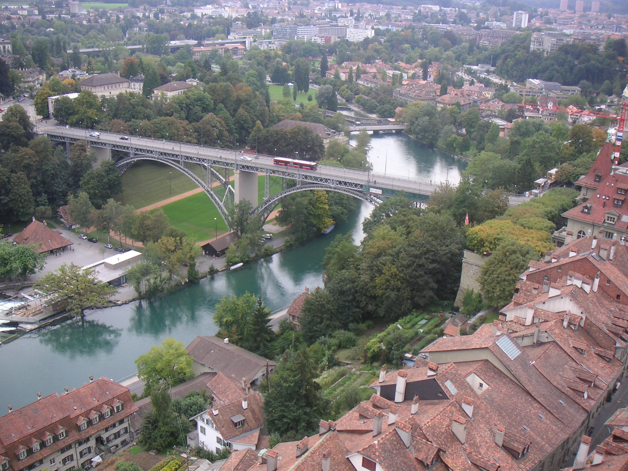 Aare river and Kirchenfeldbrücke in Bern.